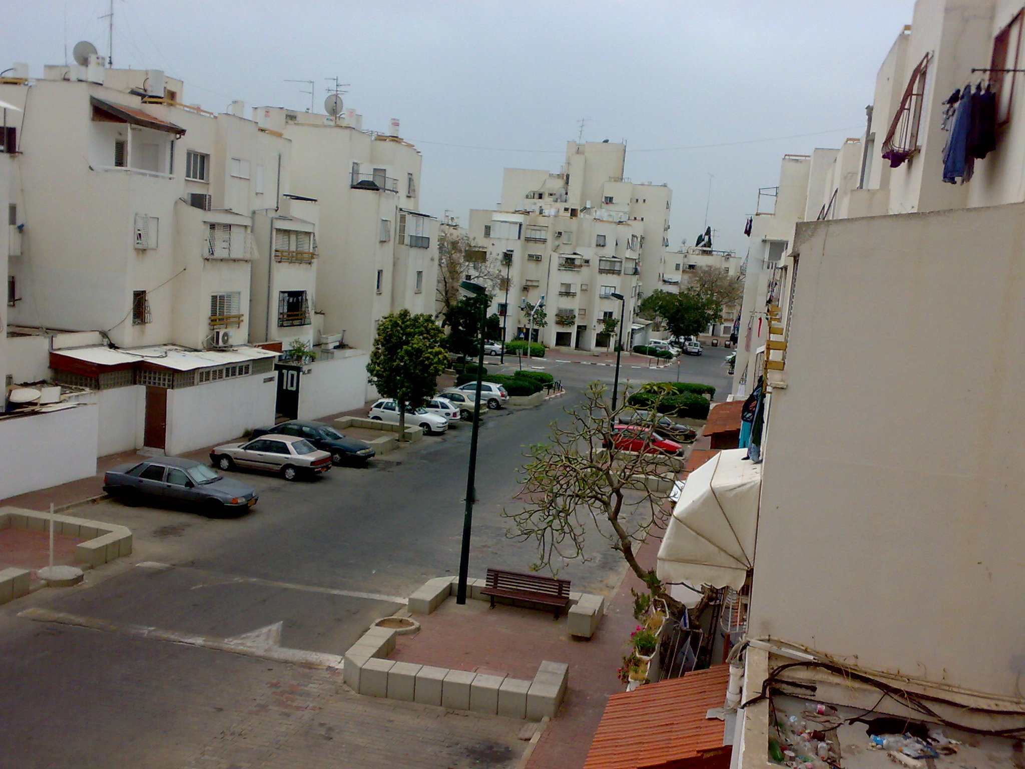 Elnekave